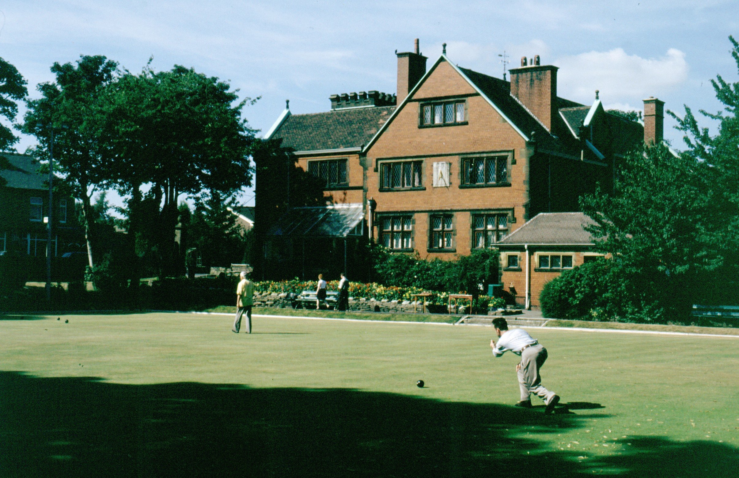 The bowling green at the Barlow Institute, Edgworth. Image scanned from slide. Photograph taken 1995 by Austen Redman.